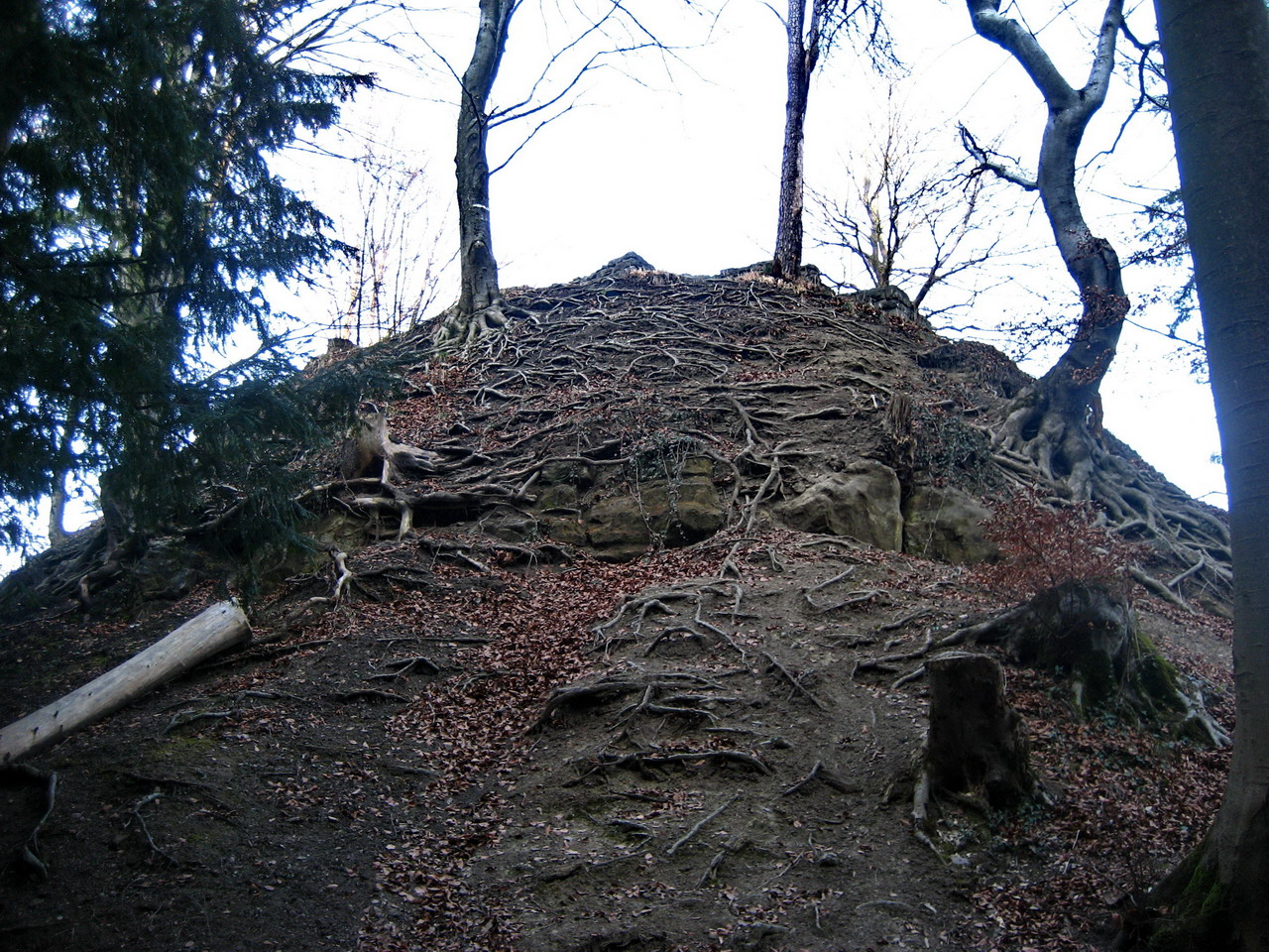 Zürich - Uetliberg : Friesenberg castle.